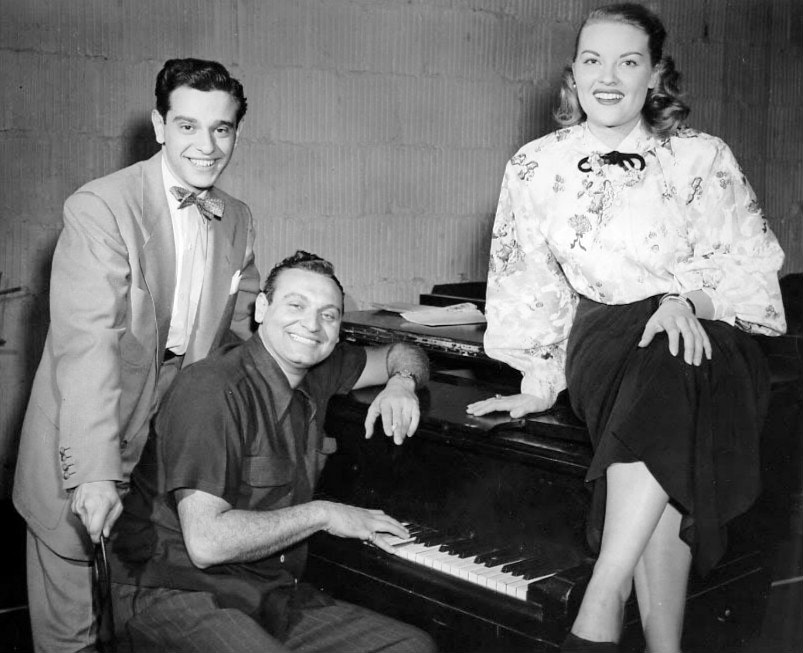 Photo of singers Frankie Laine (at piano) and Patti Page. The photo appears to have been taken in a recording studio; both vocalists were recording for Mercury Records in the early 1950s. Laine was born in 1913 and died in 2007; Page was born in 1927. The man at left appears to be singer Richard Hayes who was also with Mercury at that time.